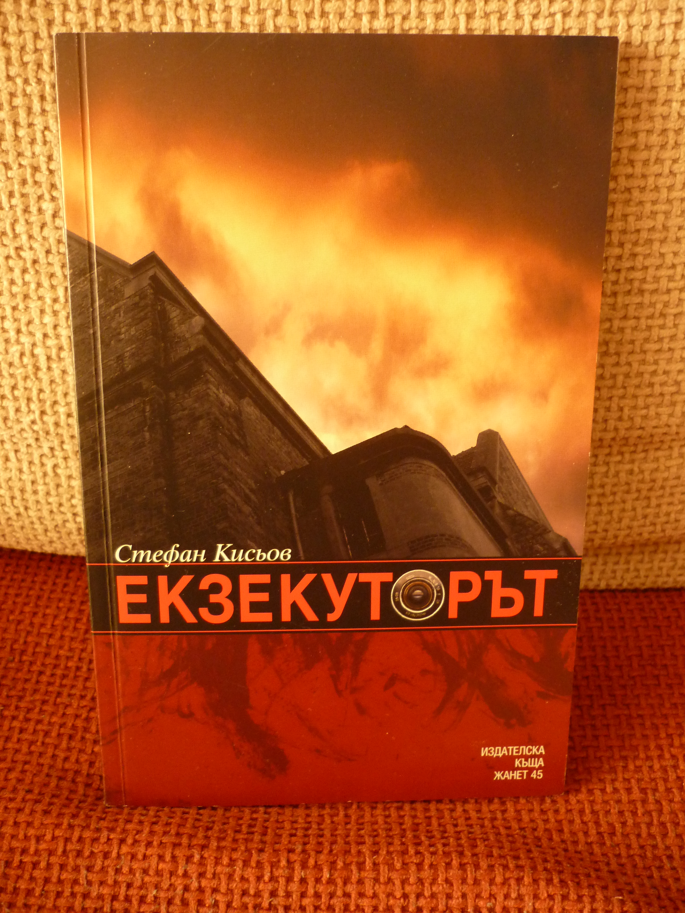 „Executioner“, a first Bulgarian edition, 2003